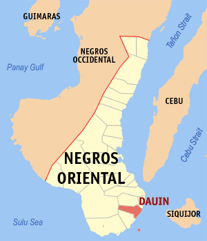 Map of Negros Oriental showing the location of Dauin